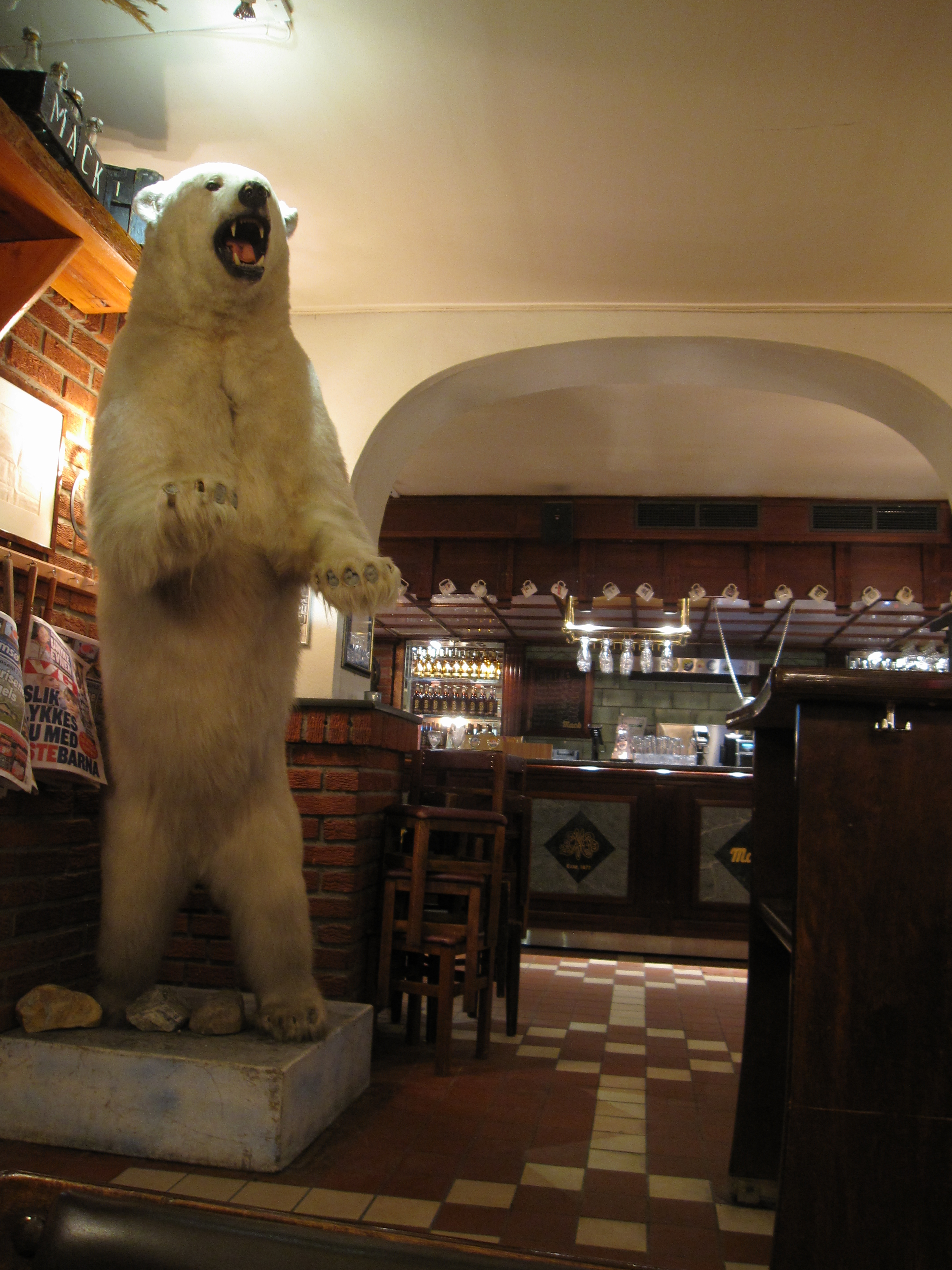 A stuffed polar bear in the Ølhallen pub in Tromsø, Norway. blog entry